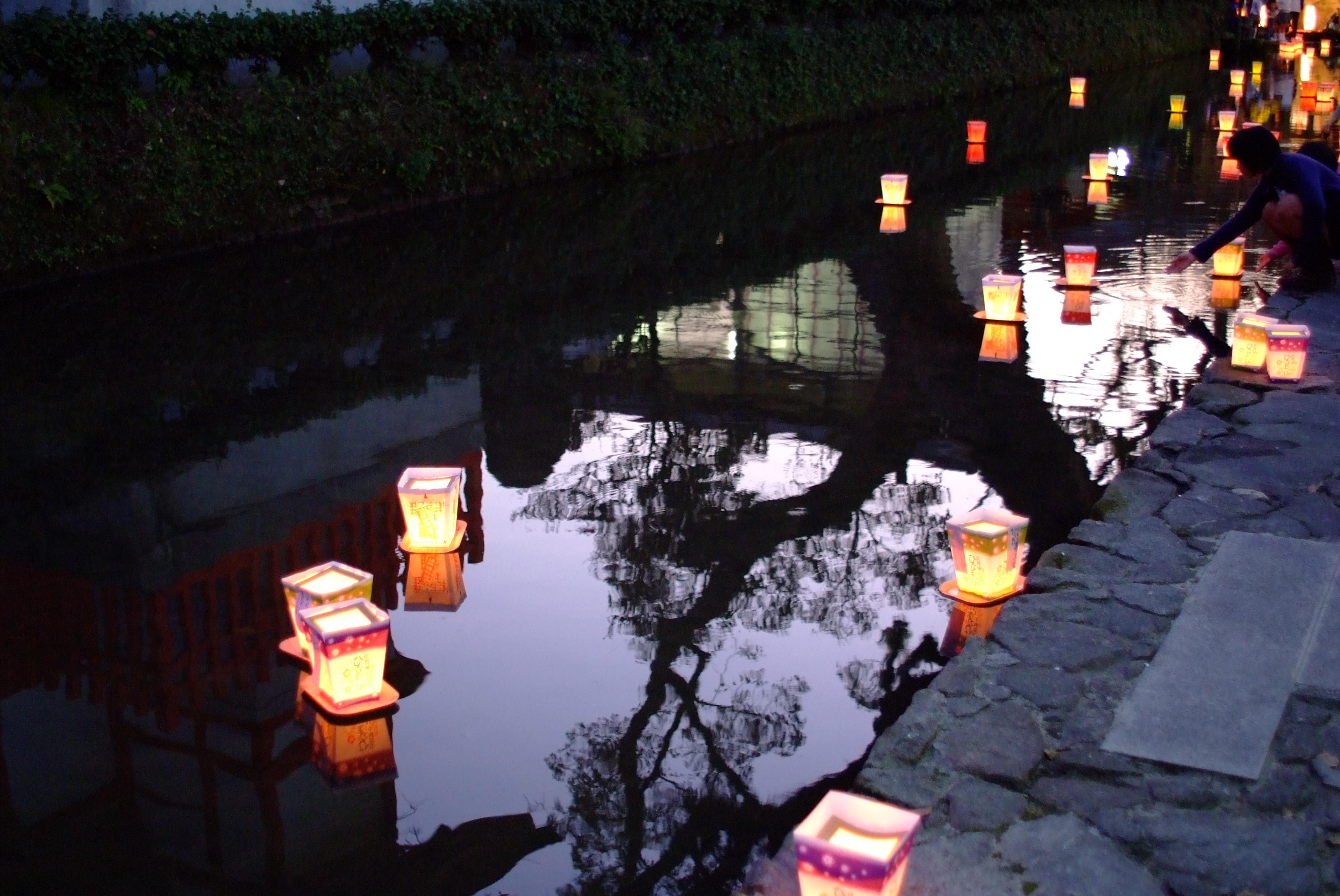 Nagashi-bina festival in Saga-jinja shinto shrine